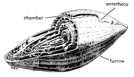 Cross-sectional cutaway view of a fusulinid foraminiferan. Image from Kansas Geological Survey (public domain)